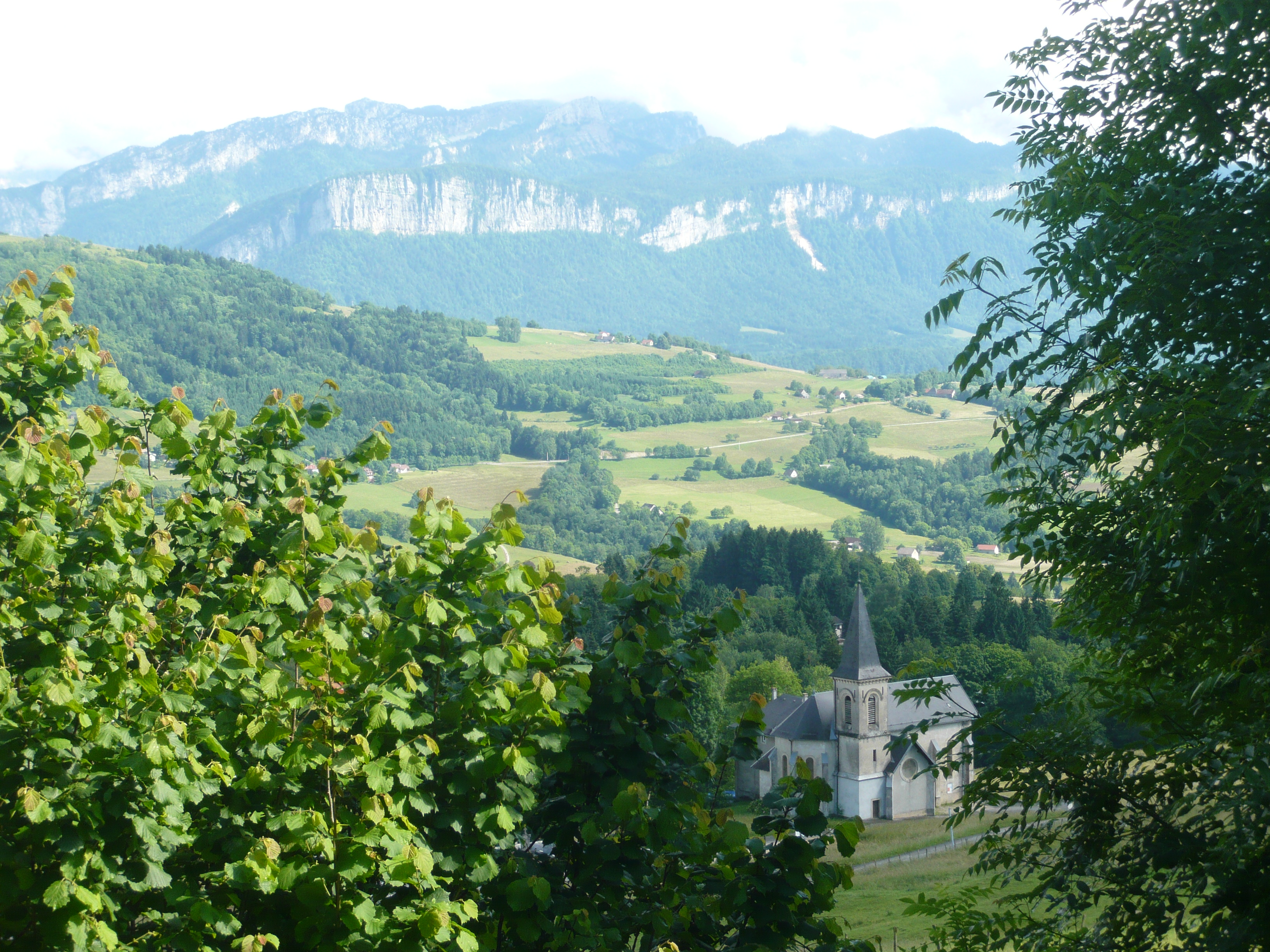 View of the landscape of the village of Saint-Franc (Savoy/Savoie, France) with the Church in the background. June 2012